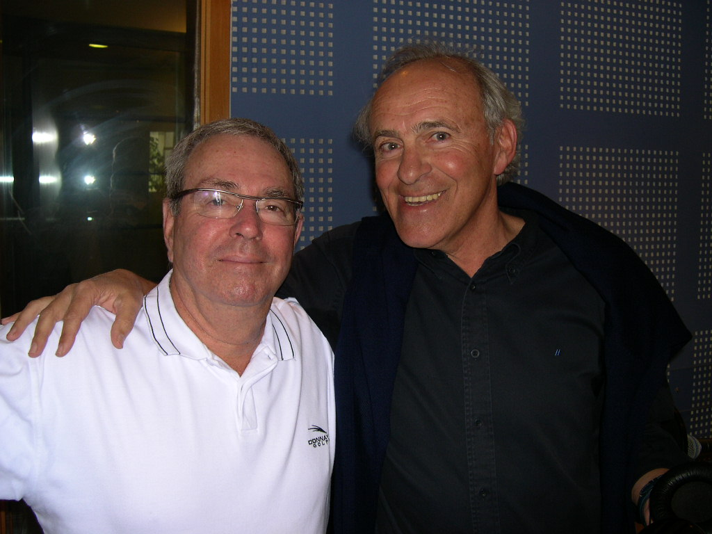 Mordechai Speigler (right) with Yram Arbel.